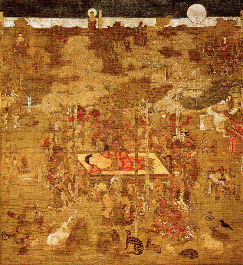 Butsu nehan zu, Kosanji, Onomichi, Hiroshima, Japan